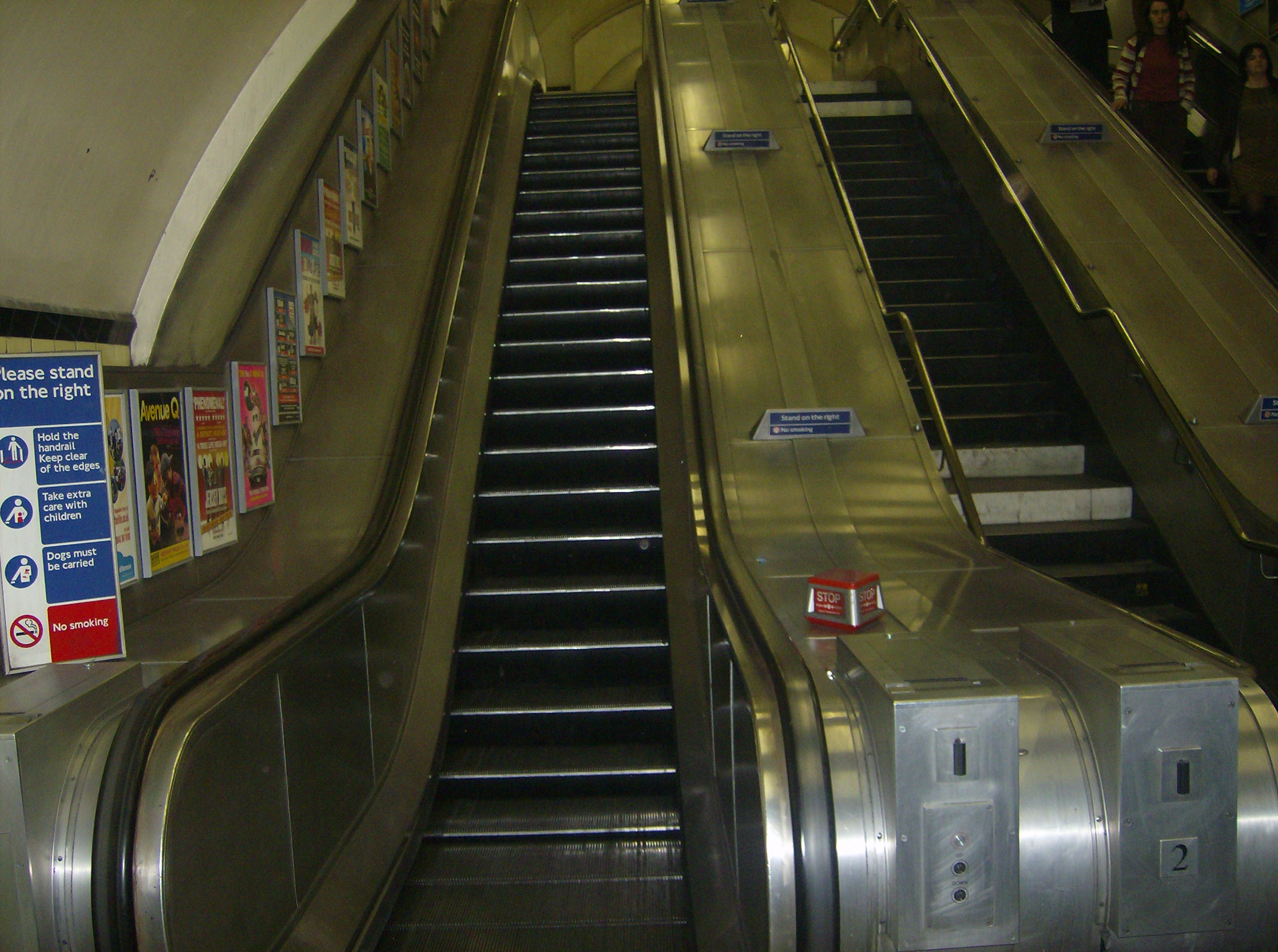 The shortest escalator on the London Underground, Chancery Lane station.